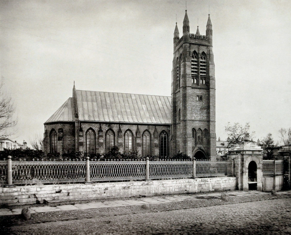 Plate 58: Anglican church, Moscow.